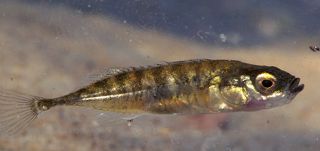 Ninespine stickleback (also called ten-spined stickleback, Pungitius pungitius), probably female.